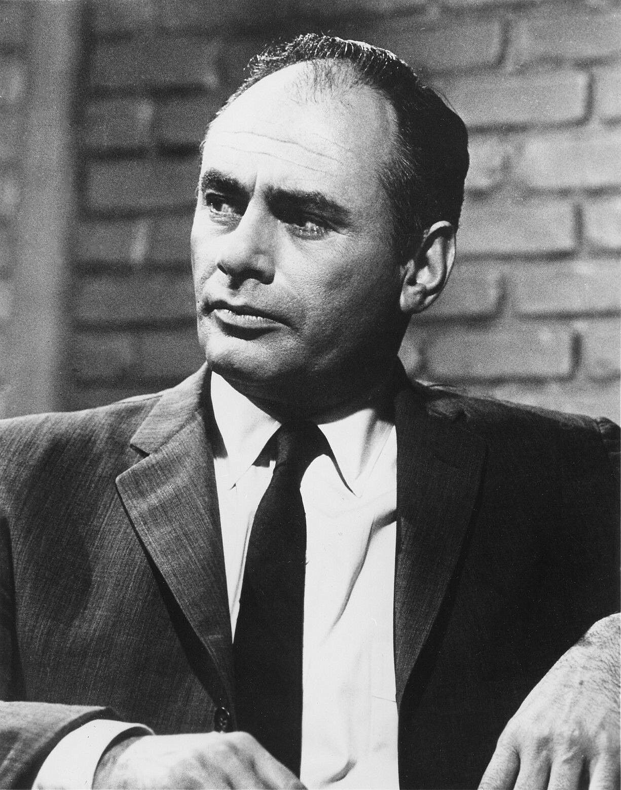 Martin Balsam film still. See also film still. No copyright notice.